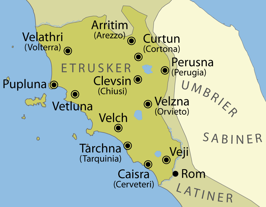 A map showing the extent of Etruria and the Etruscan civilization. The map includes the 12 cities of the Etruscan League and notable cities founded by the Etruscans.